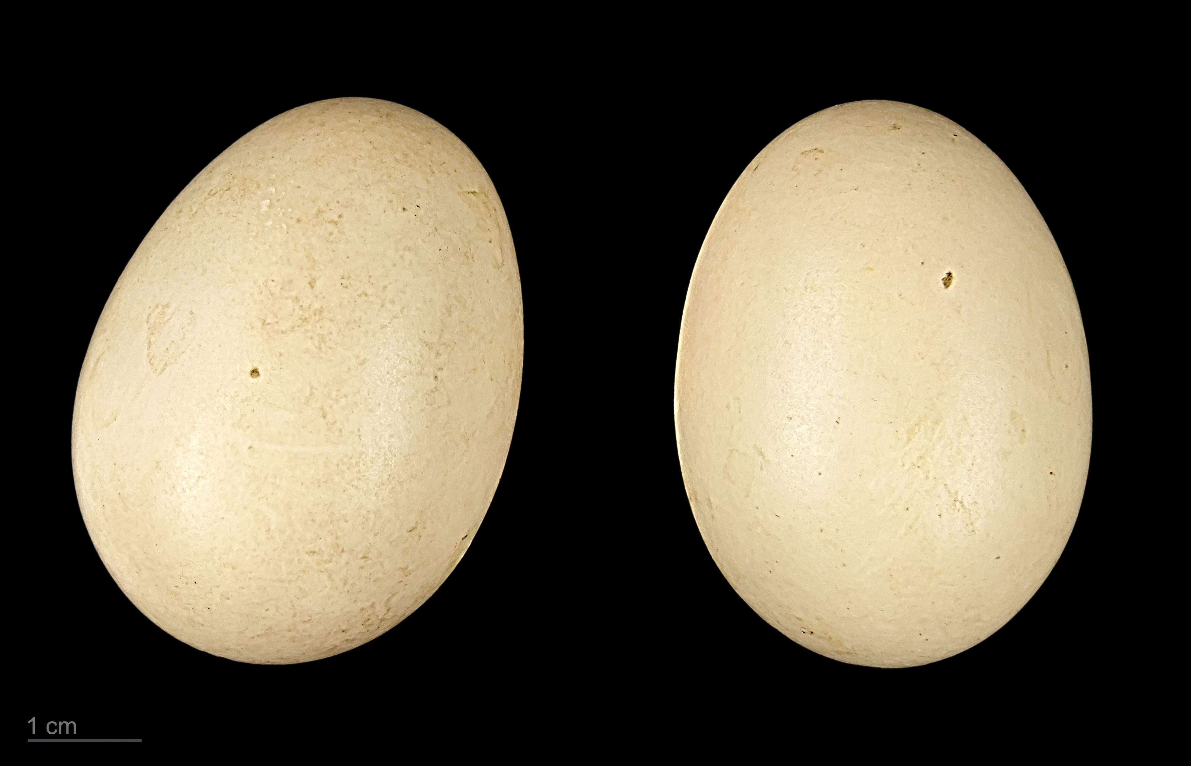 Eggs of silver teal Two specimens of the same spawn ; collection of Jacques Perrin de Brichambaut.